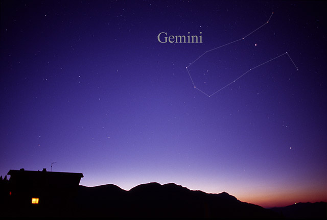 Photography of the constellation Gemini, the twins, in morning twilight. Planet Saturn was in Gemini in the year 2003.